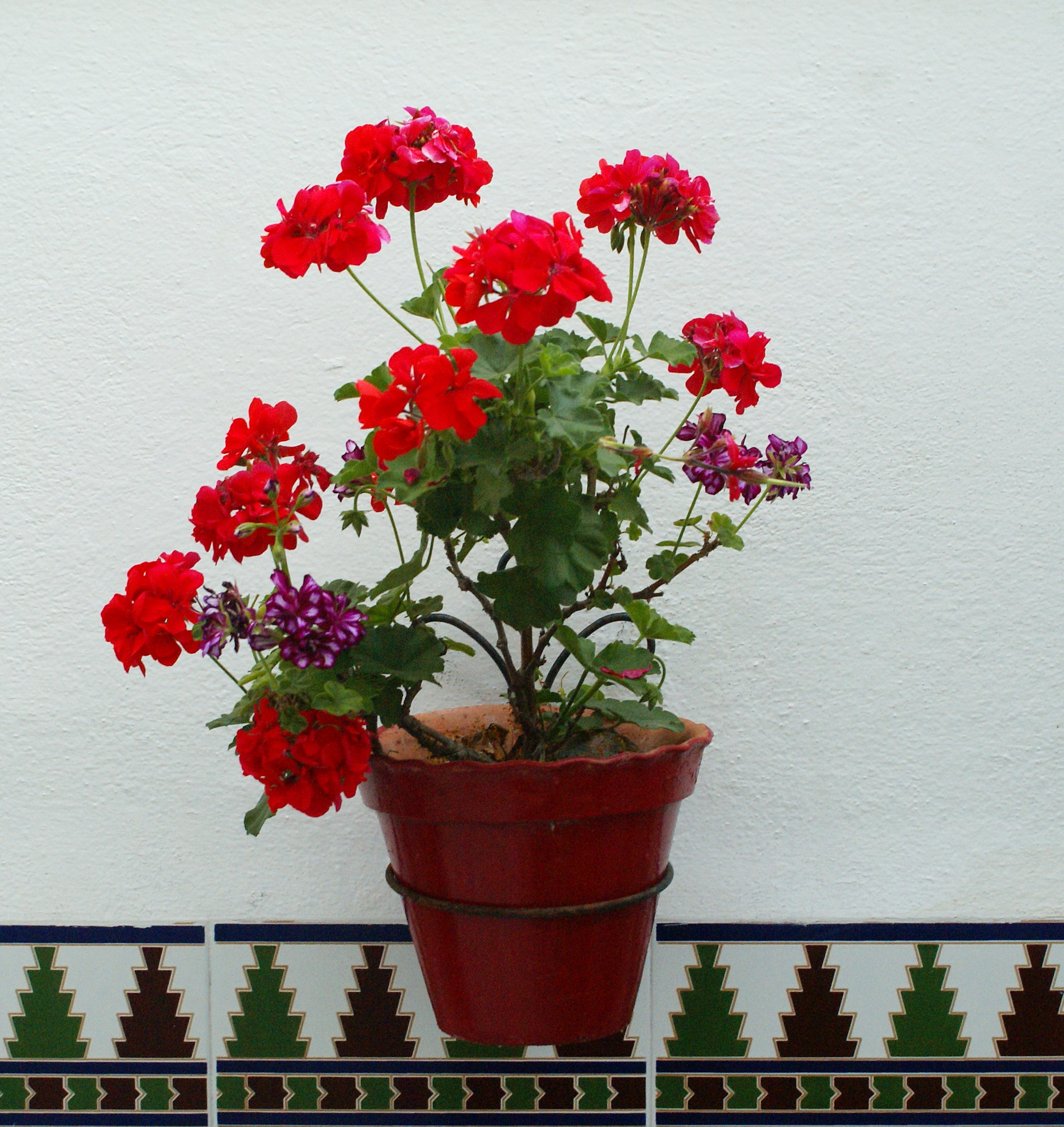 Red geranium in a clay flowerpot